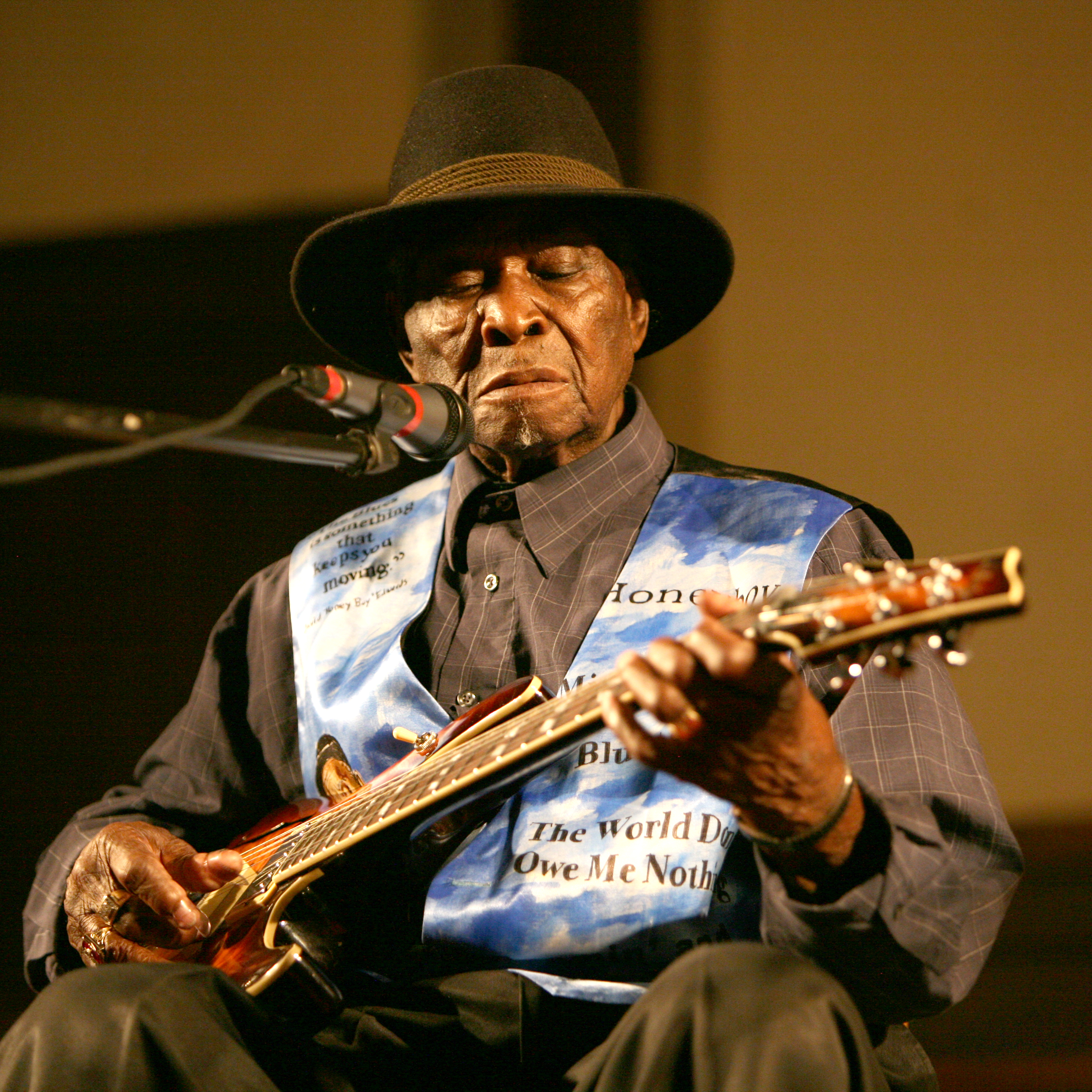 David "Honeyboy" Edwards Great Delta Blues Guitarist